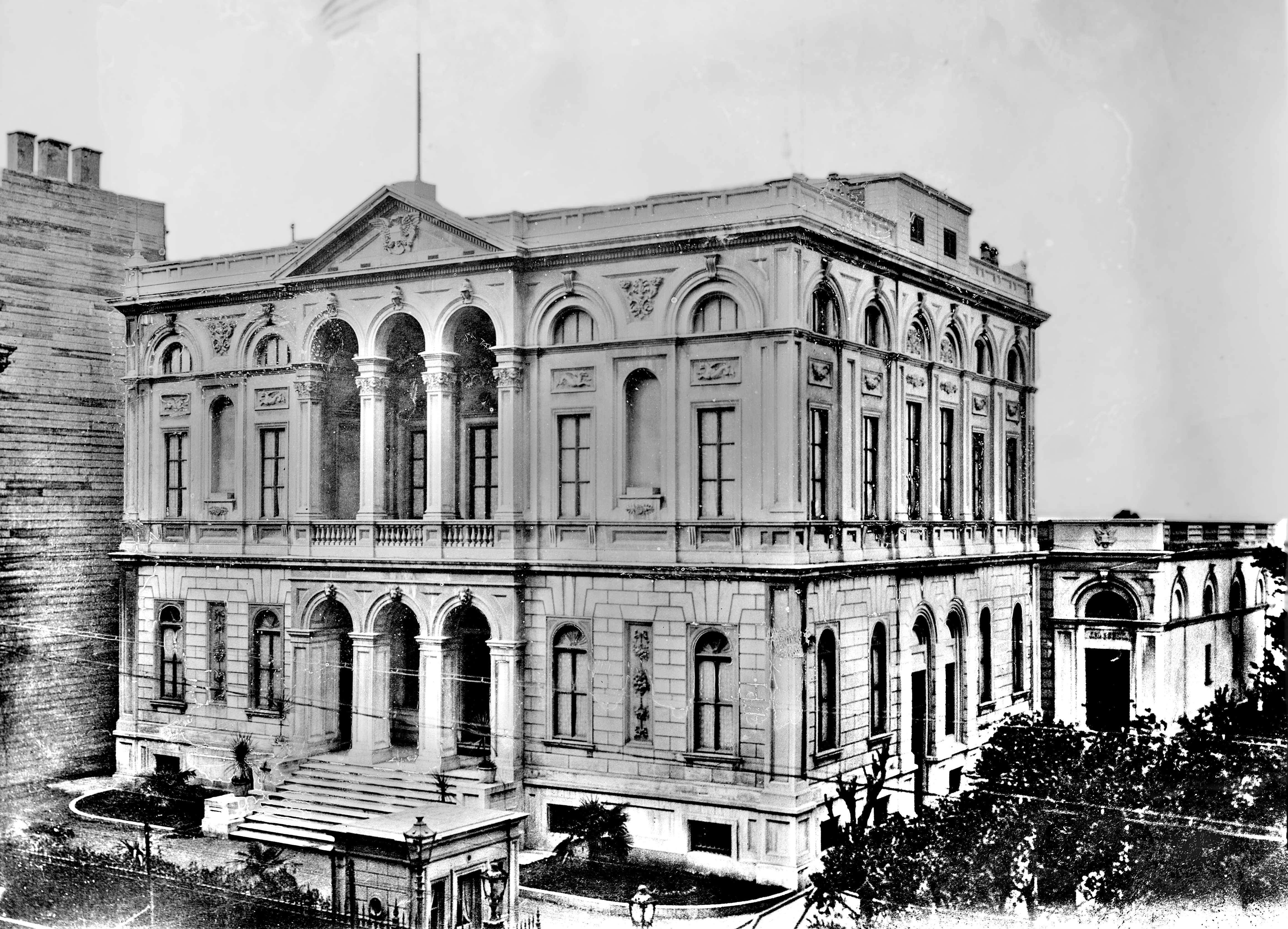 A photo of the Palazzo Corpi circa 1920. In 1920 the building housed the embassy of the United States to Turkey. This is a retouched picture, which means that it has been digitally altered from its original version. Modifications: rotation and contrast. The original can be viewed here: Palazzo Corpii circa 1920.tif. Modifications made by PawełMM.